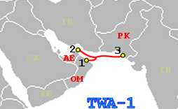 Route of the TWA-1 Submarine communications cable. For more information on the numbered landing points, see main article.